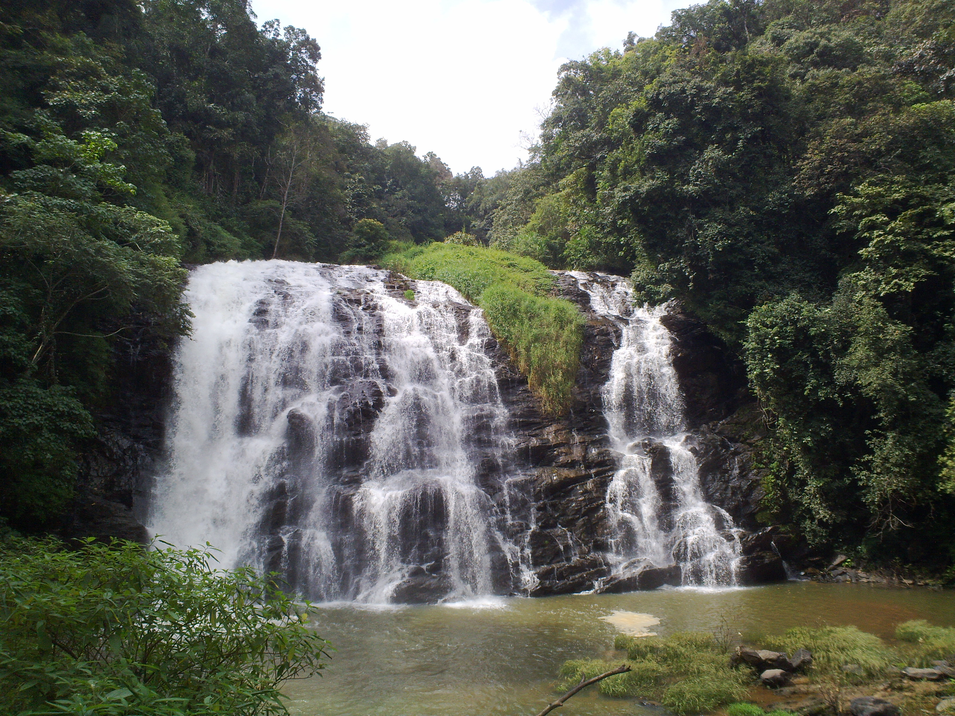 Abbey falls (Oct/2010).